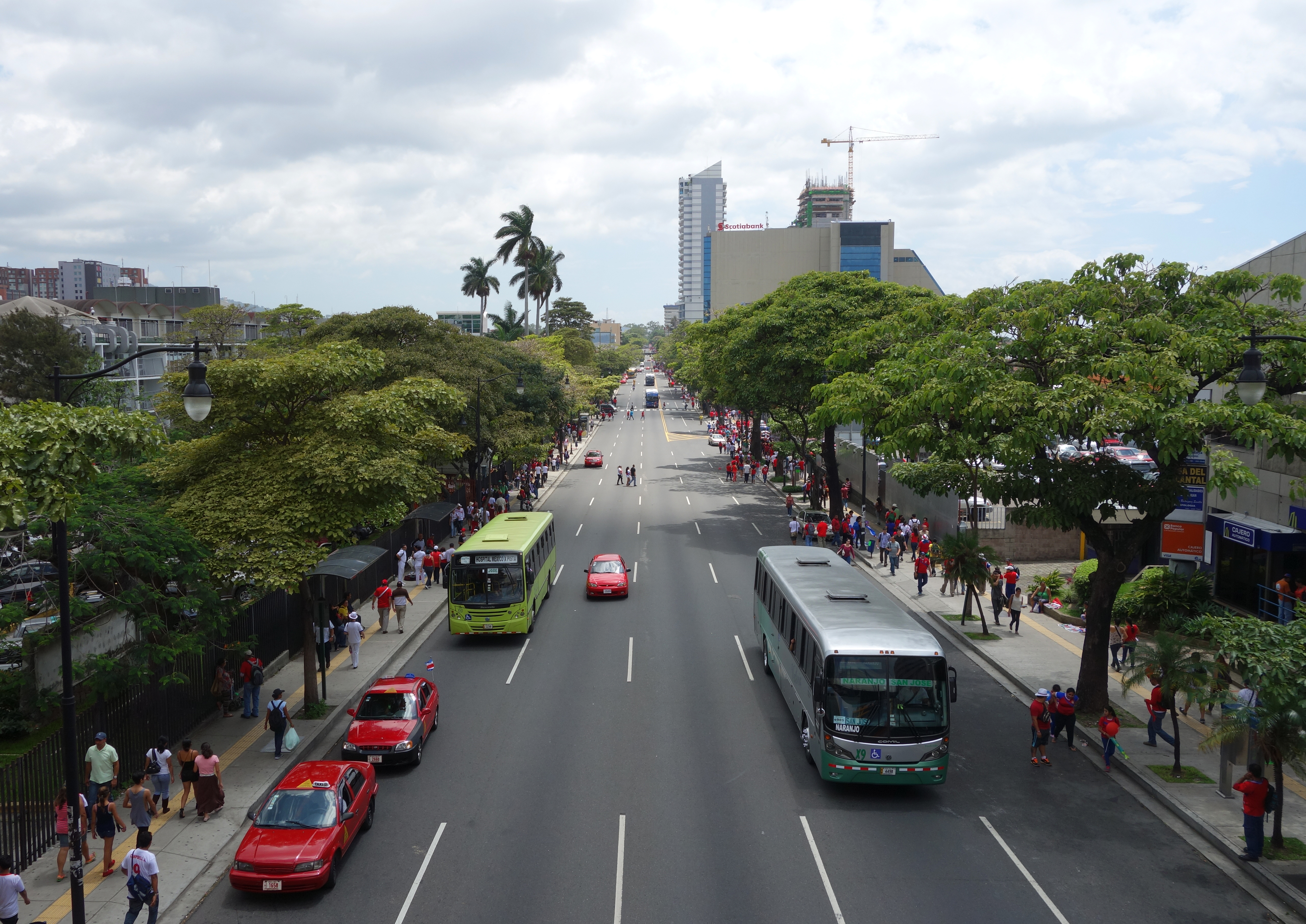 Paseo Colón in San José, Costa Rica seen westwards